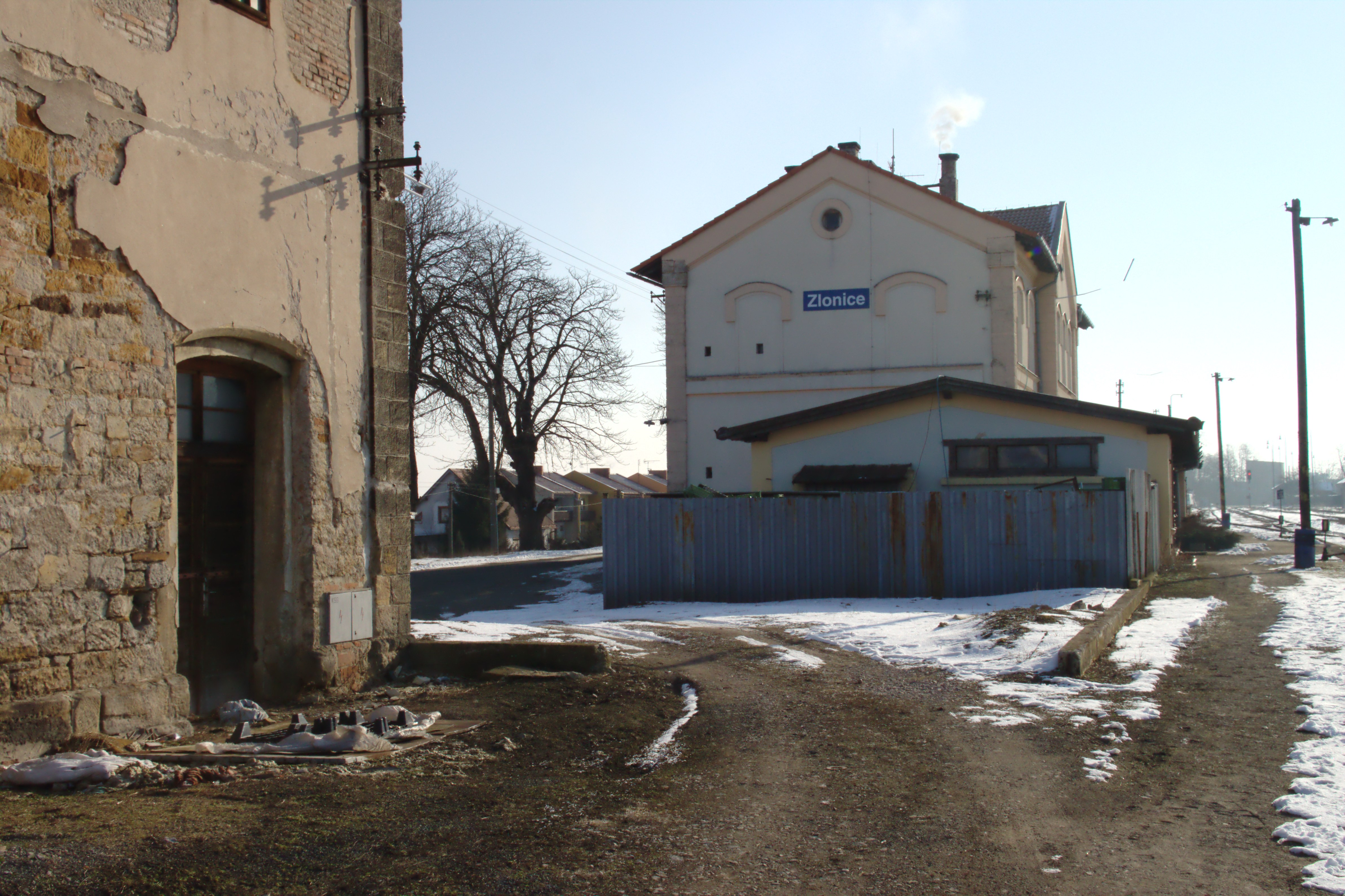 Zlonice Train Station, Kladno District